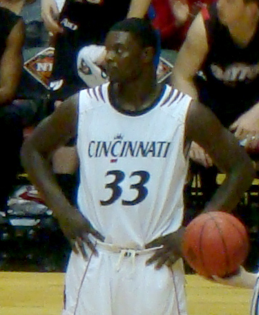 Dion Dixon of Cincinnati